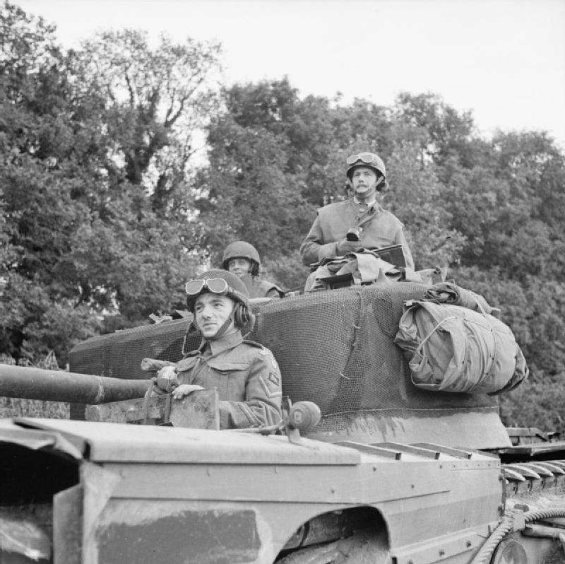 The British Army in Normandy 1944 Lt Fathergill, CO of 'B' Squadron, 107th Regiment Royal Armoured Corps, 34th Tank Brigade, with his crew on their Churchill tank, 17 July 1944.